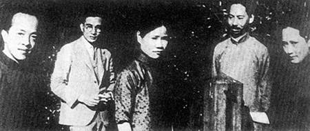 China League for Civil Rights (from right to left)Soong Ching-ling, Yang Xingfo, Li Peihua(Soong's secretary), Lin Yutang and Hu Yuzhi